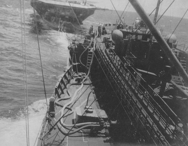 IJN Aux. fleet oiler Kyokutō Maru and HIJMS Hiryū